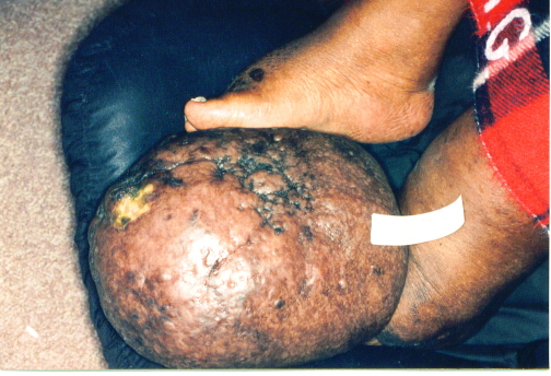 Taken in my medical practice by DrGnu. I hold the agreement. There is no identifier in the picture.